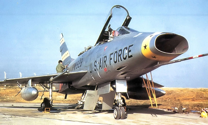 North American F-100D-60-NA Super Sabre 56-2928 in the 81st Tactical Fighter Squadron while at Wheelus AB, Libya for gunnery training in 1958.